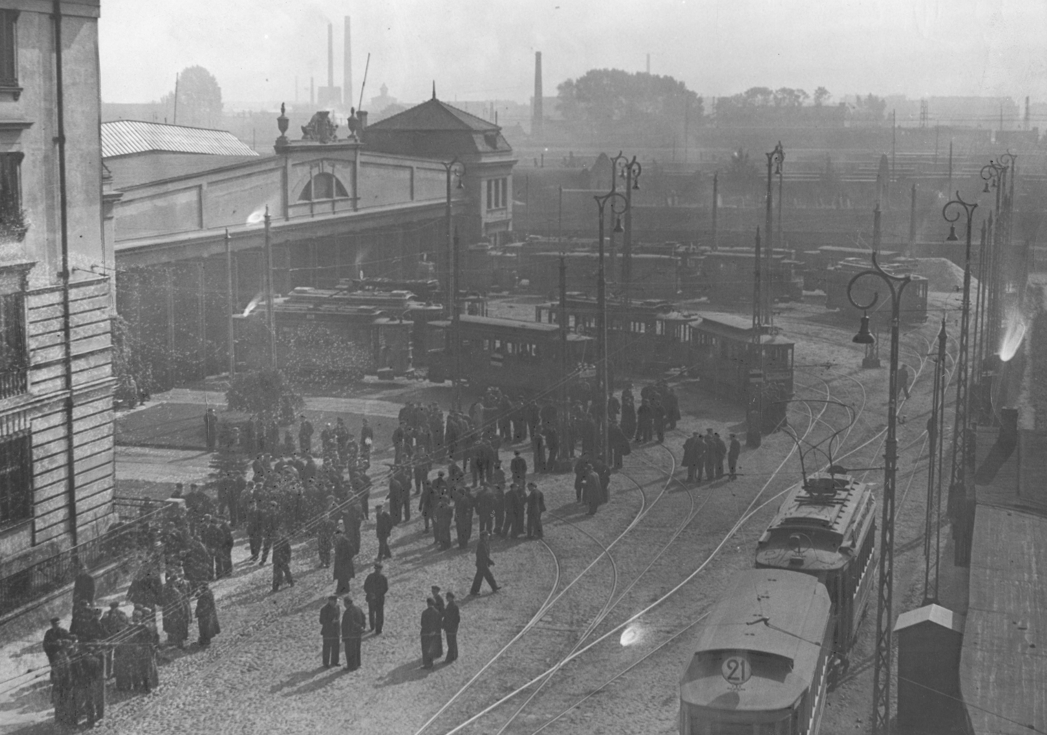 Tram depot at 16 Kawęczyńska Street in Warsaw